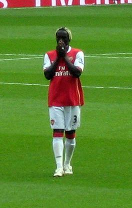 Bacary Sagna